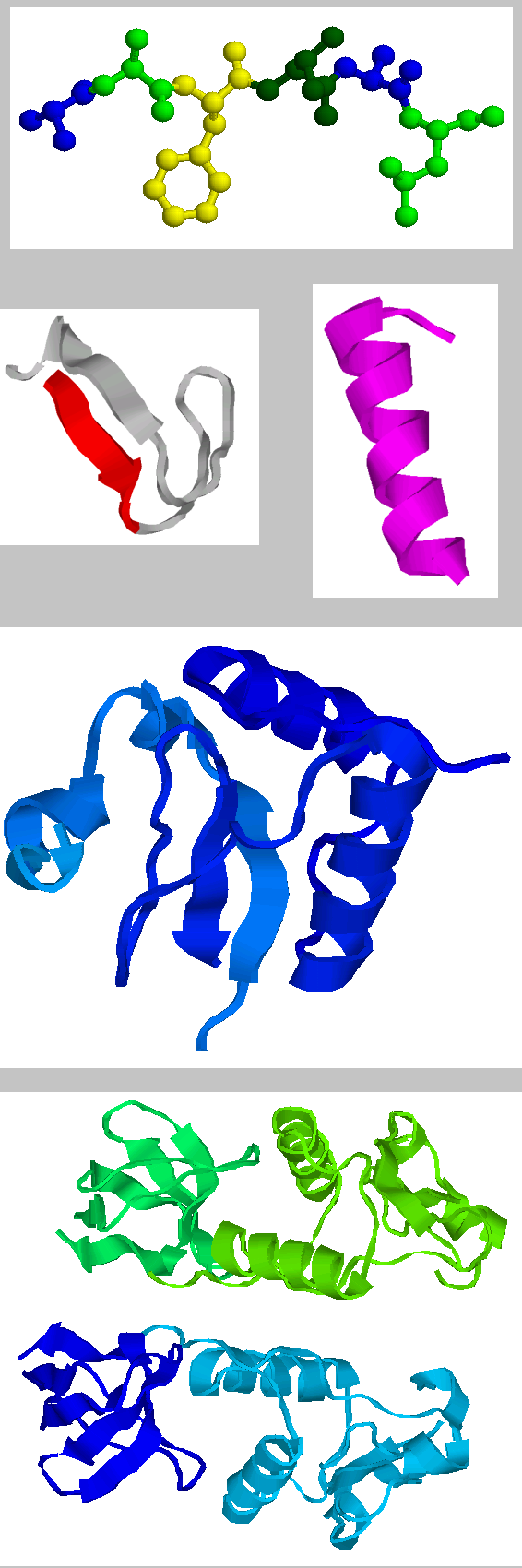 4 levels of protein structure